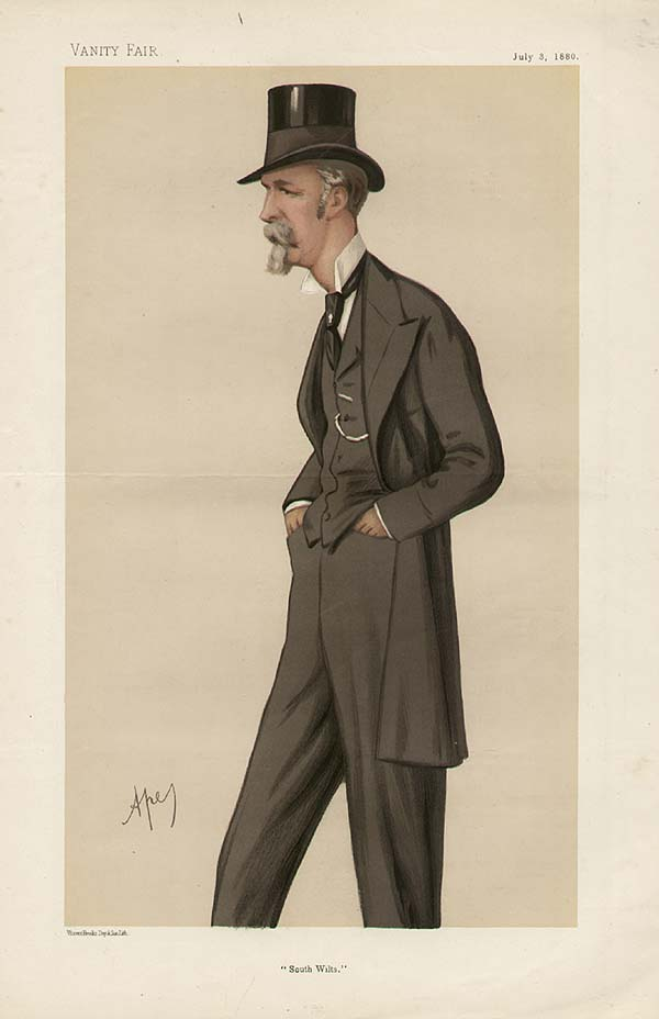 Statesmen No.330: Caricature of Viscount Folkestone MP. Caption reads: "South Wilts"